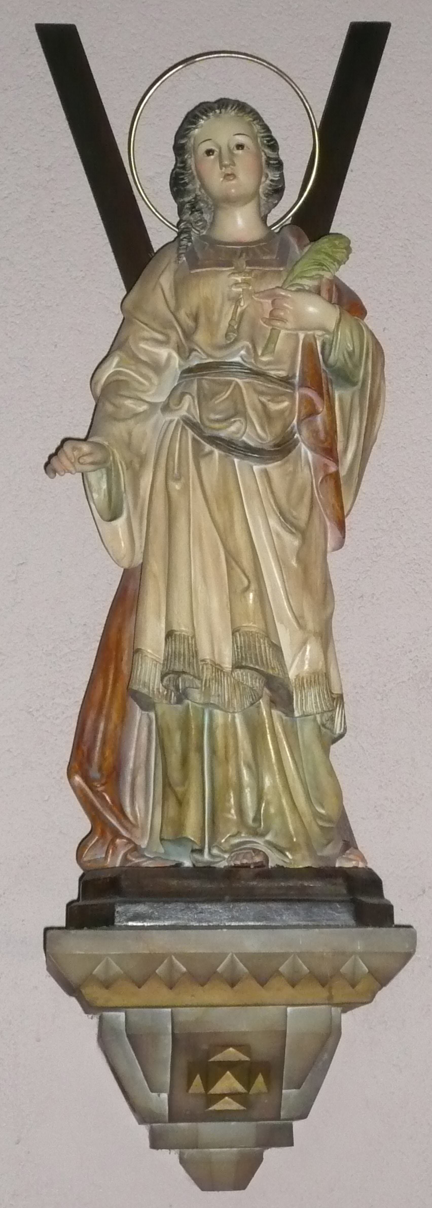 Saint Eulàlia from Barcelona. Statue in Josepets Church, Gracia, Barcelona